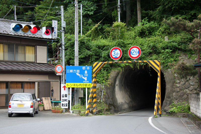 Route 140 Komagataki Tunnel, Chichibu, Saitama, Japan